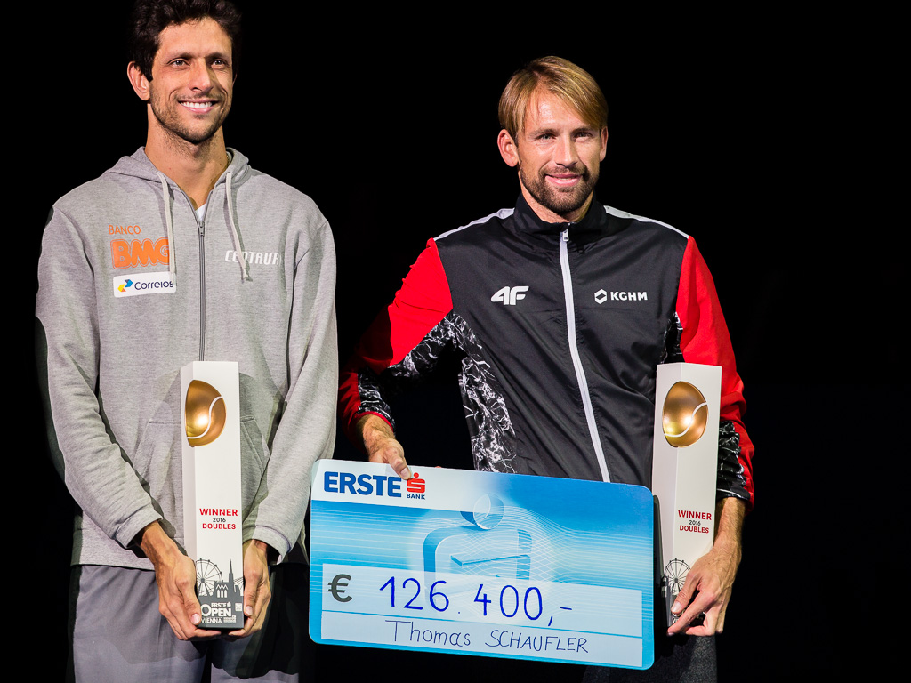 Erste Bank Open ATP World Tour 500 in Vienna 2016